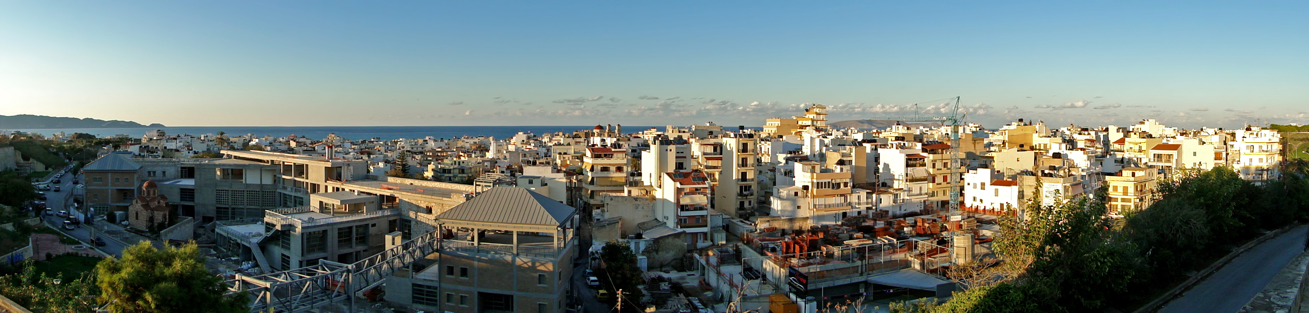 Panoramic view of Heraklion from Kazantzakis Tomb, Crete, Greece